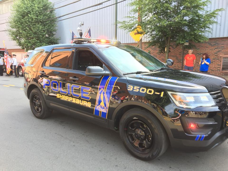 Sharpsburg Police Dept. Unit 3500-01, Memorial Day 2018.